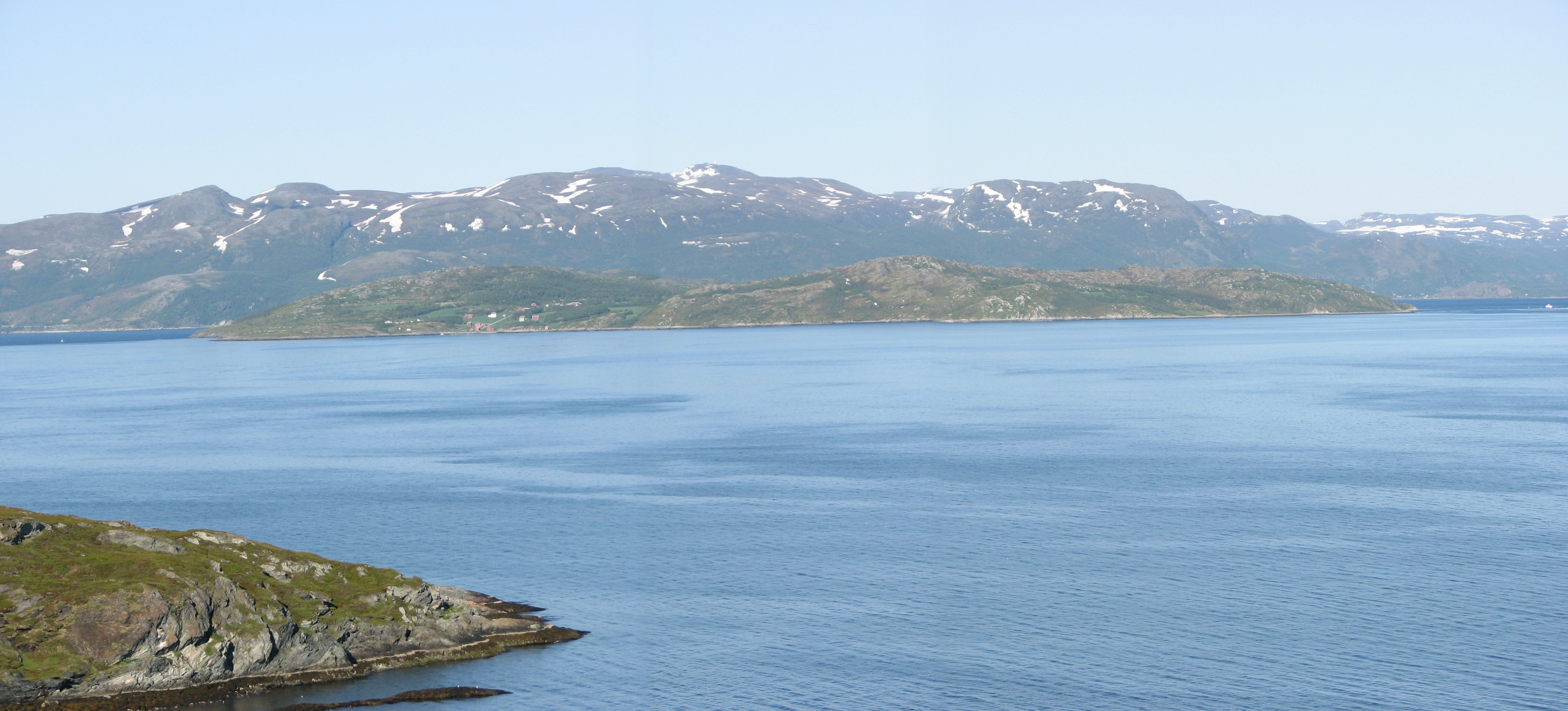 Årøya, Alta municipality, Norway View from west